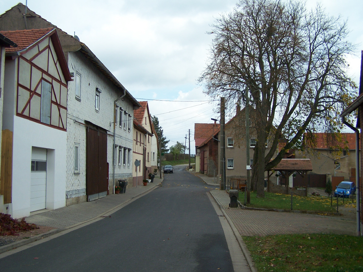 In Uetteroda village.